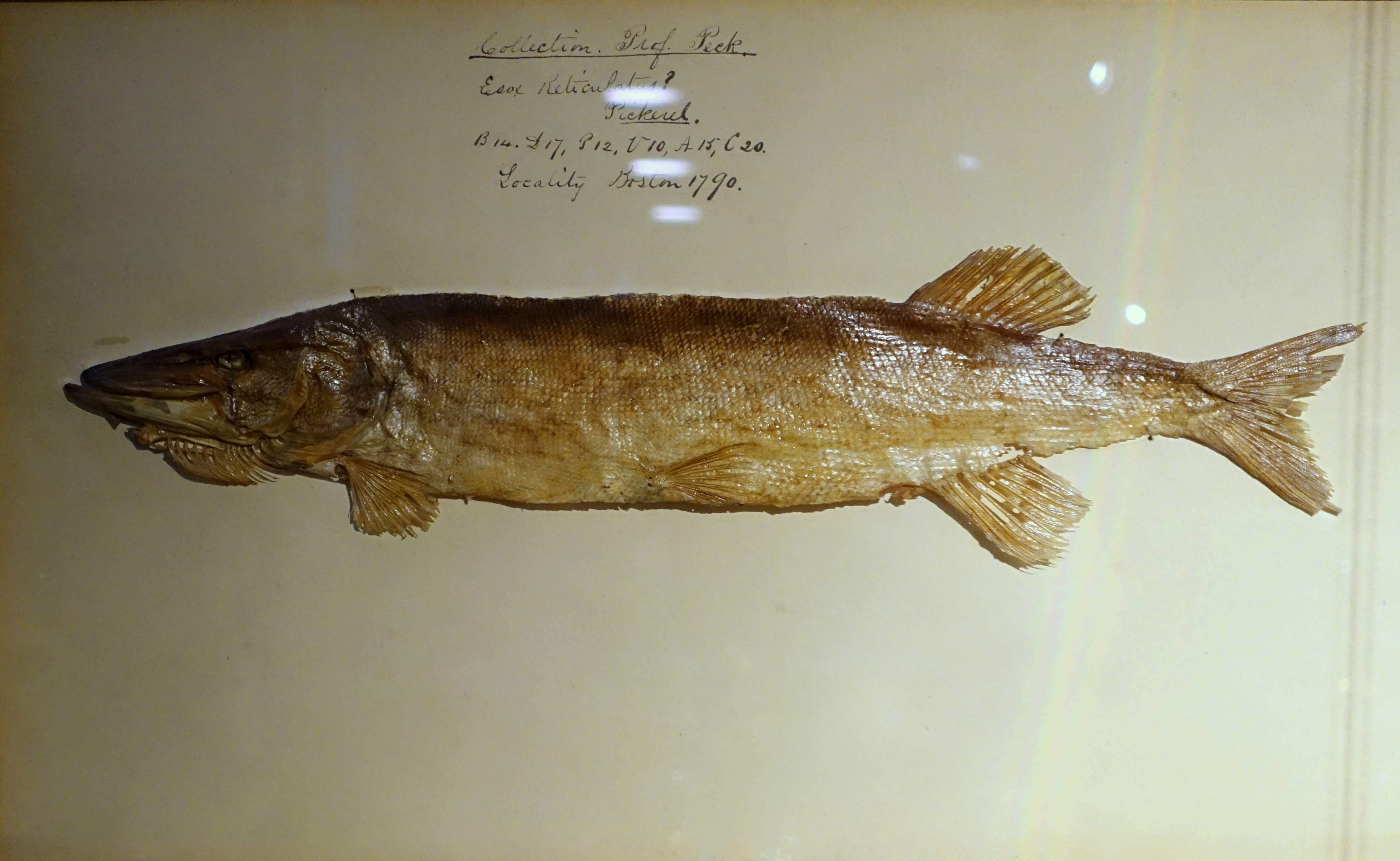 Exhibit in the Putnam Gallery - Harvard University - Cambridge, Massachusetts, USA.